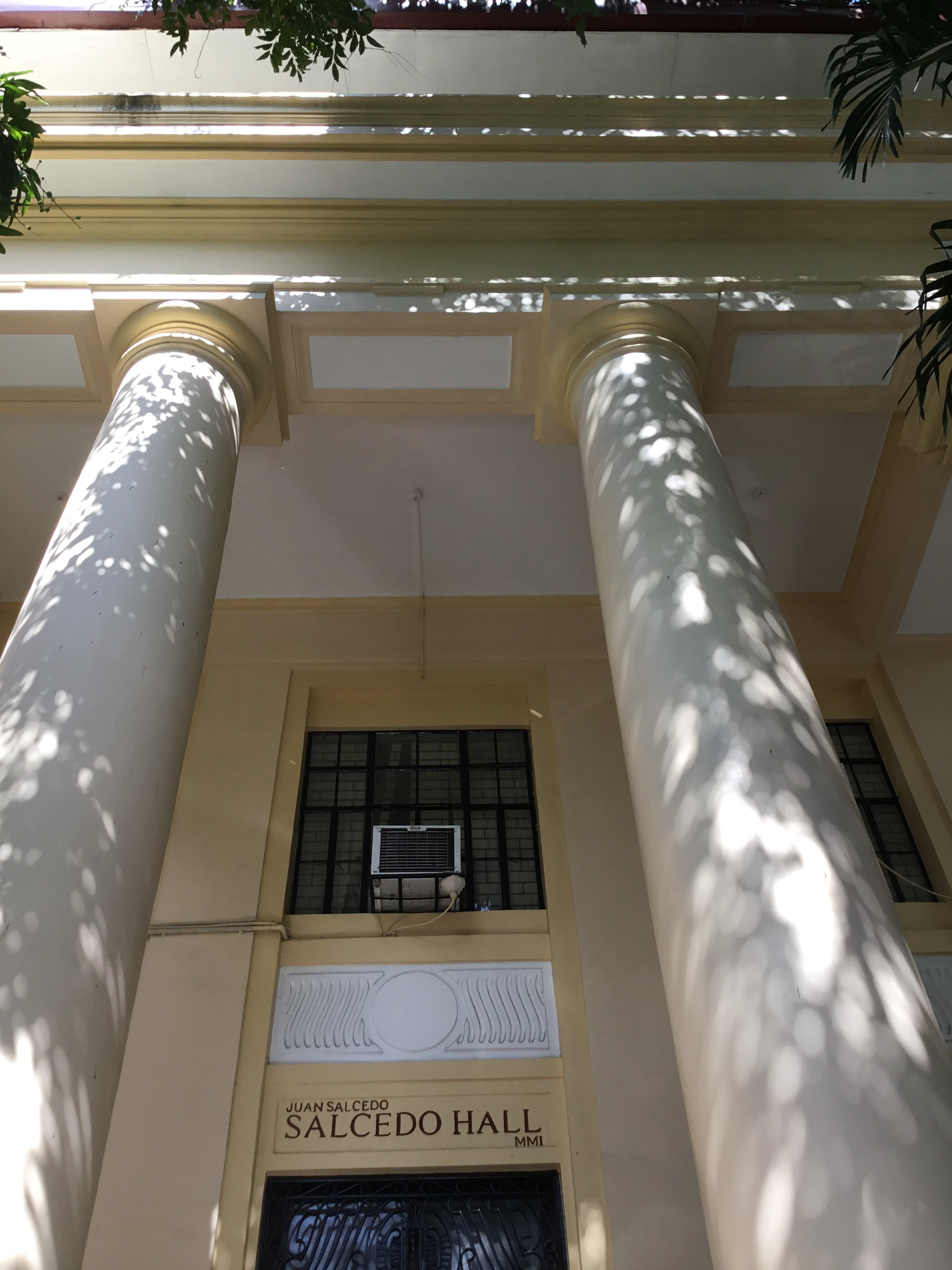 UP Manila Salcedo Hall